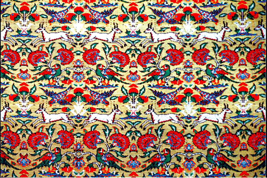 Persian Silk Brocade. Persian Textile (The Golden Yarns of Zari - Brocade). Silk Brocade with Golden Thread (Golabetoon). Texture Type: Lower Warp (Brocade Atlasi). Ornamental Relief Work, Embossed Brocade. Jacquard. Pattern and Design: Flower and Bird (Gol-o Morgh), With Main Repeating Motif. Brocade weaver: Master Seyyed Hossein Mozhgani. 1973 A.D. Brocade Designer (Pattern Designer): Master Mohammad Tarighi. 1973 A.D. Pahlavi Dynasty. the Ministry of Culture and Art. Honarhaye Ziba workshop.